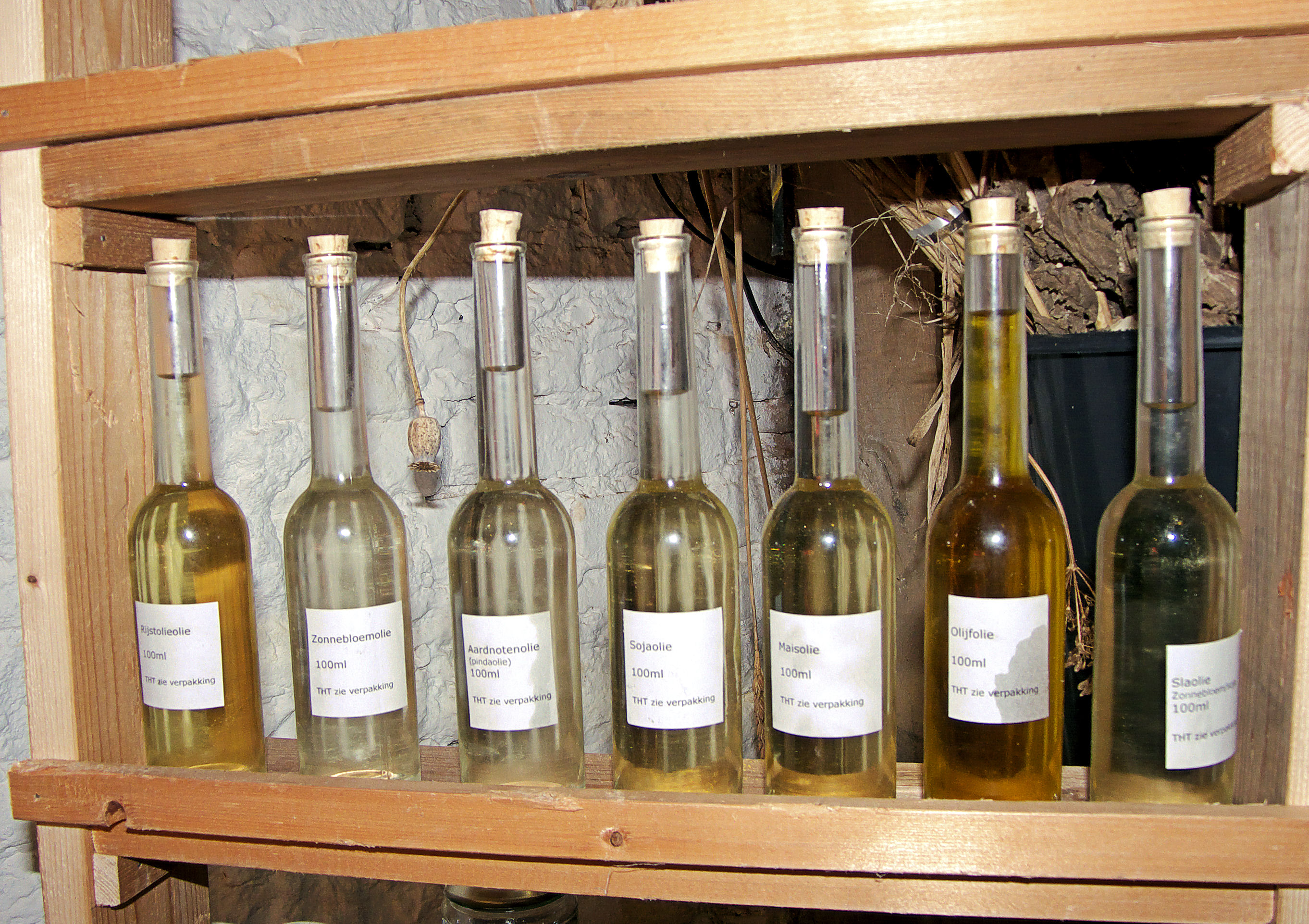 Vegetable oils, plantaardige oliën; from left to right: rice oil, sunflower oil, groundnut oil, soja oil, maize oil, olive oil, sunflower oil